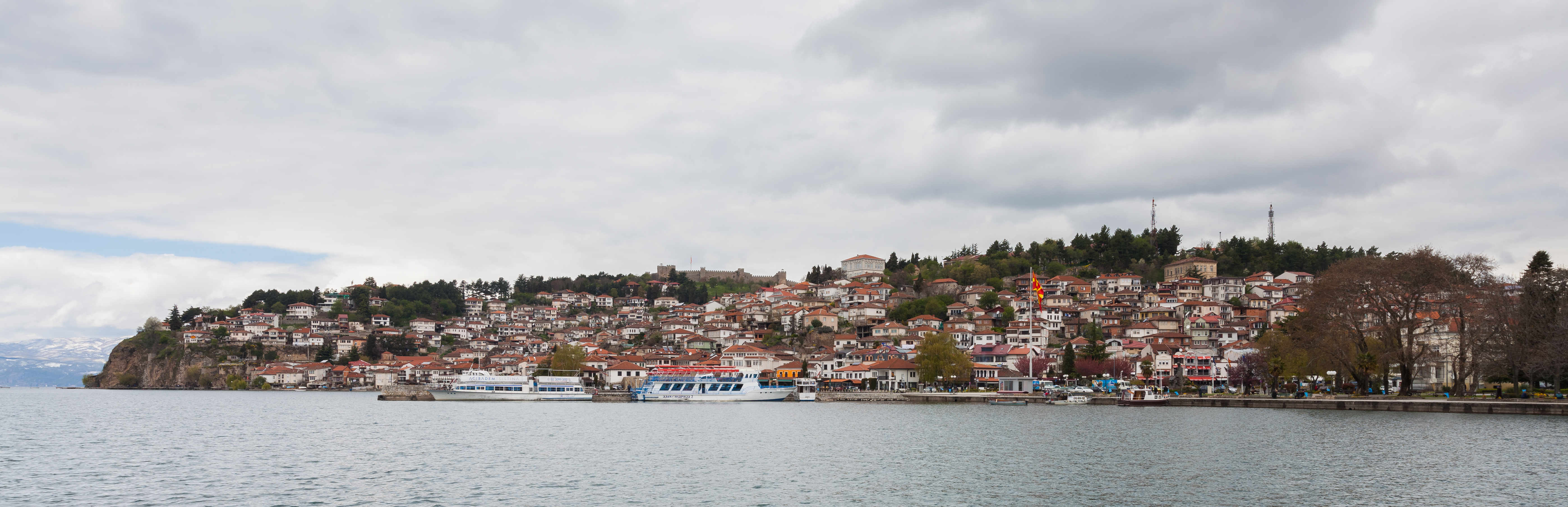 View of Ohrid, Macedonia